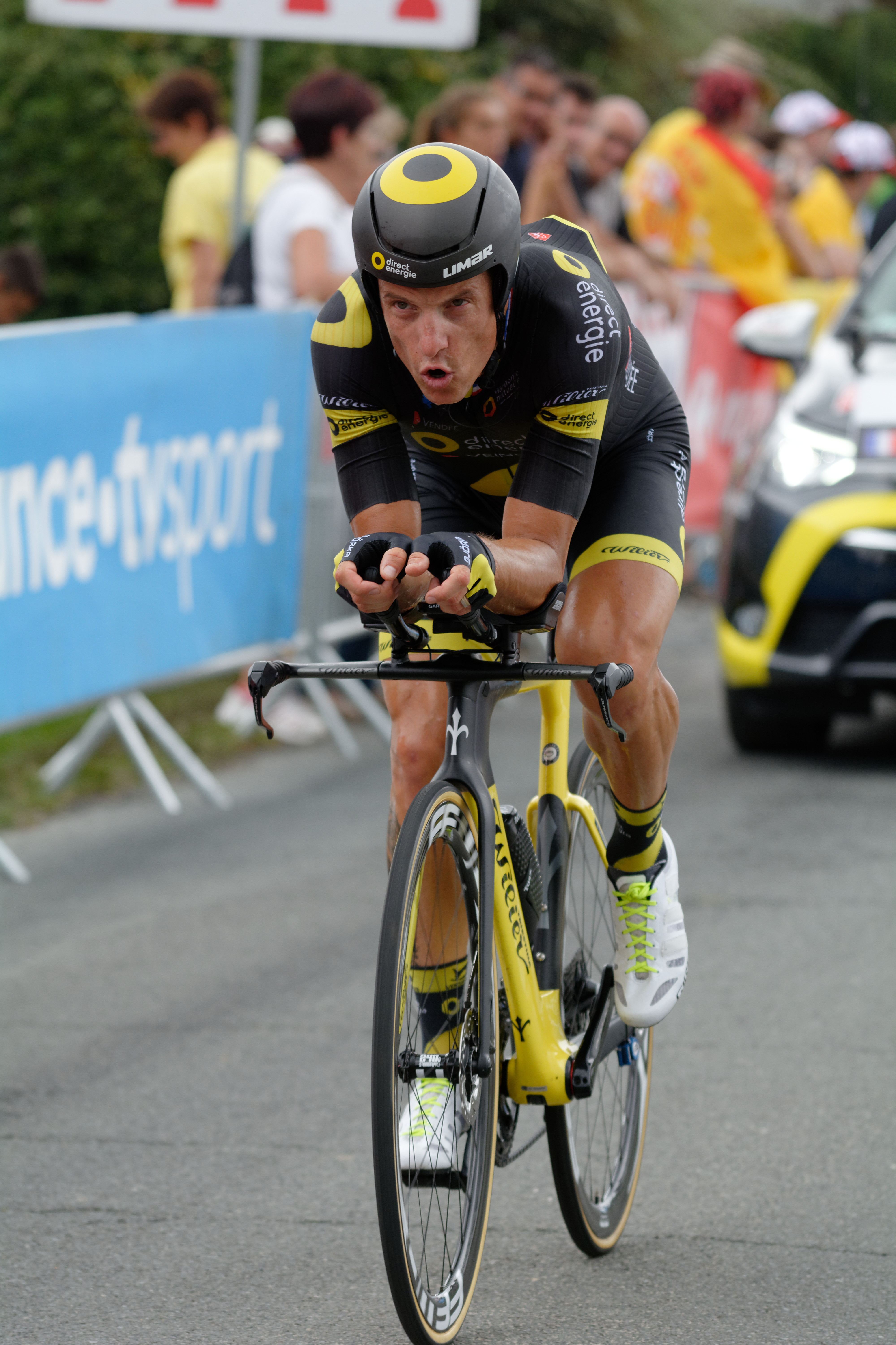 2018 Tour de France